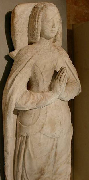 Joan of Penthievre († 1514): Tombstone.